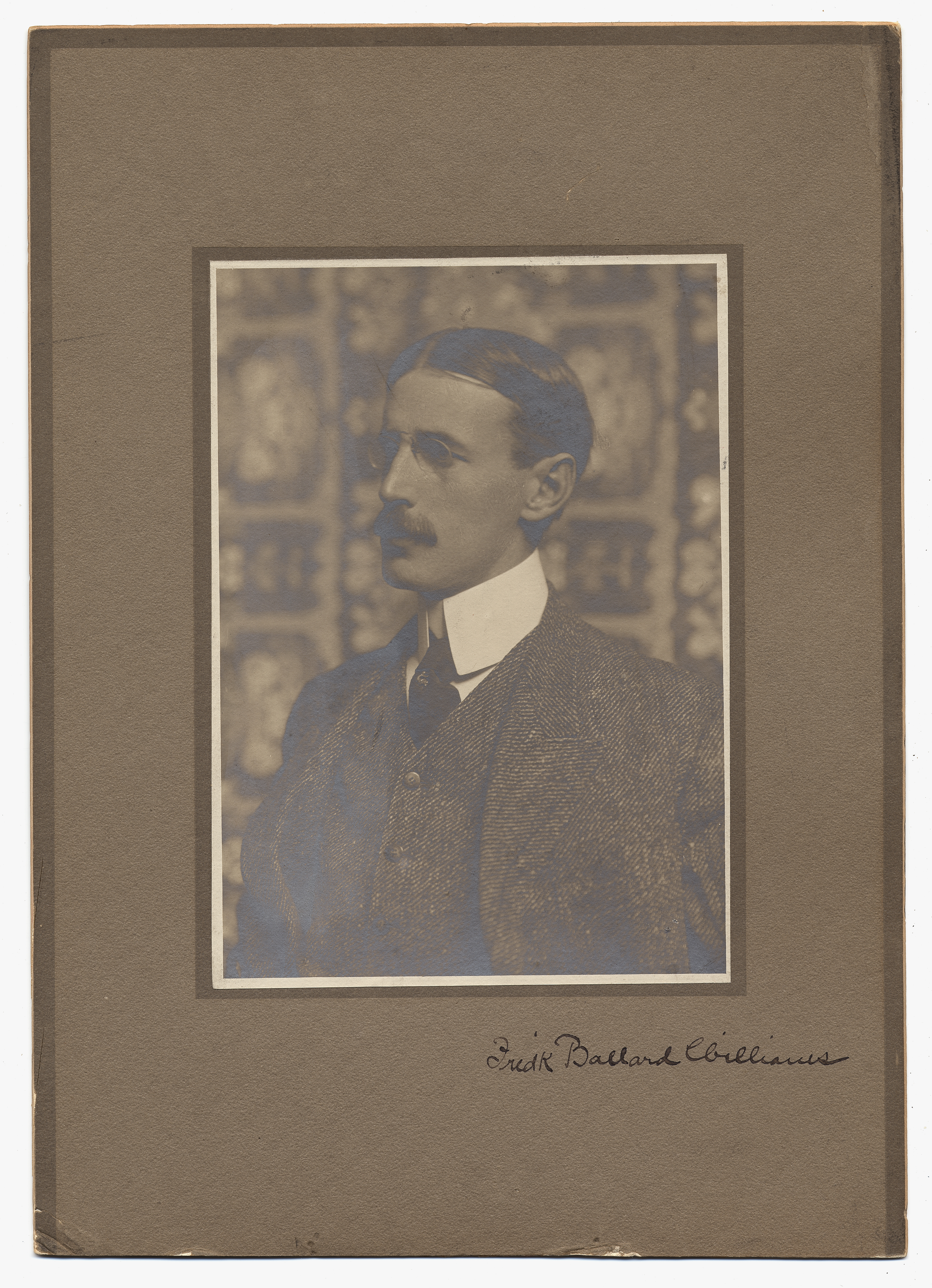 Description: Portrait of Williams in a suit. Inscription lower right: "Fred'k Ballard Williams." Williams, Frederick Ballard, 1871-1956 Creator/Photographer: Unidentified photographer Medium: Black and white photographic print Dimensions: 15 cm x 11 cm Date: c. 1900 Persistent URL: Repository: Archives of American Art Collection: Macbeth Gallery Records, c. 1890-1964 Accession number: aaa_macbgall_4866